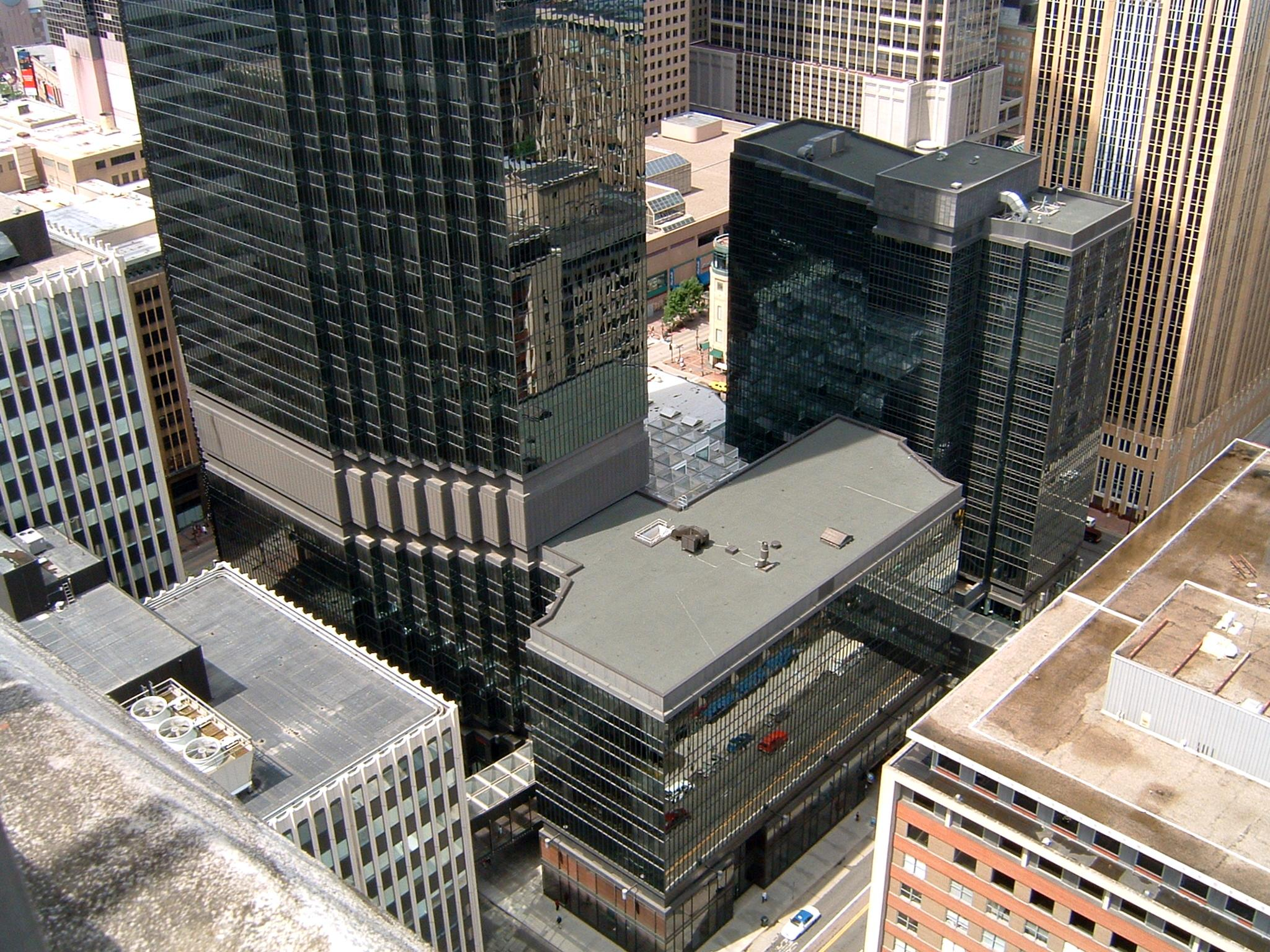 Some lower structures of the IDS Center in Minneapolis, as viewed from the observation deck of the nearby Foshay Tower.